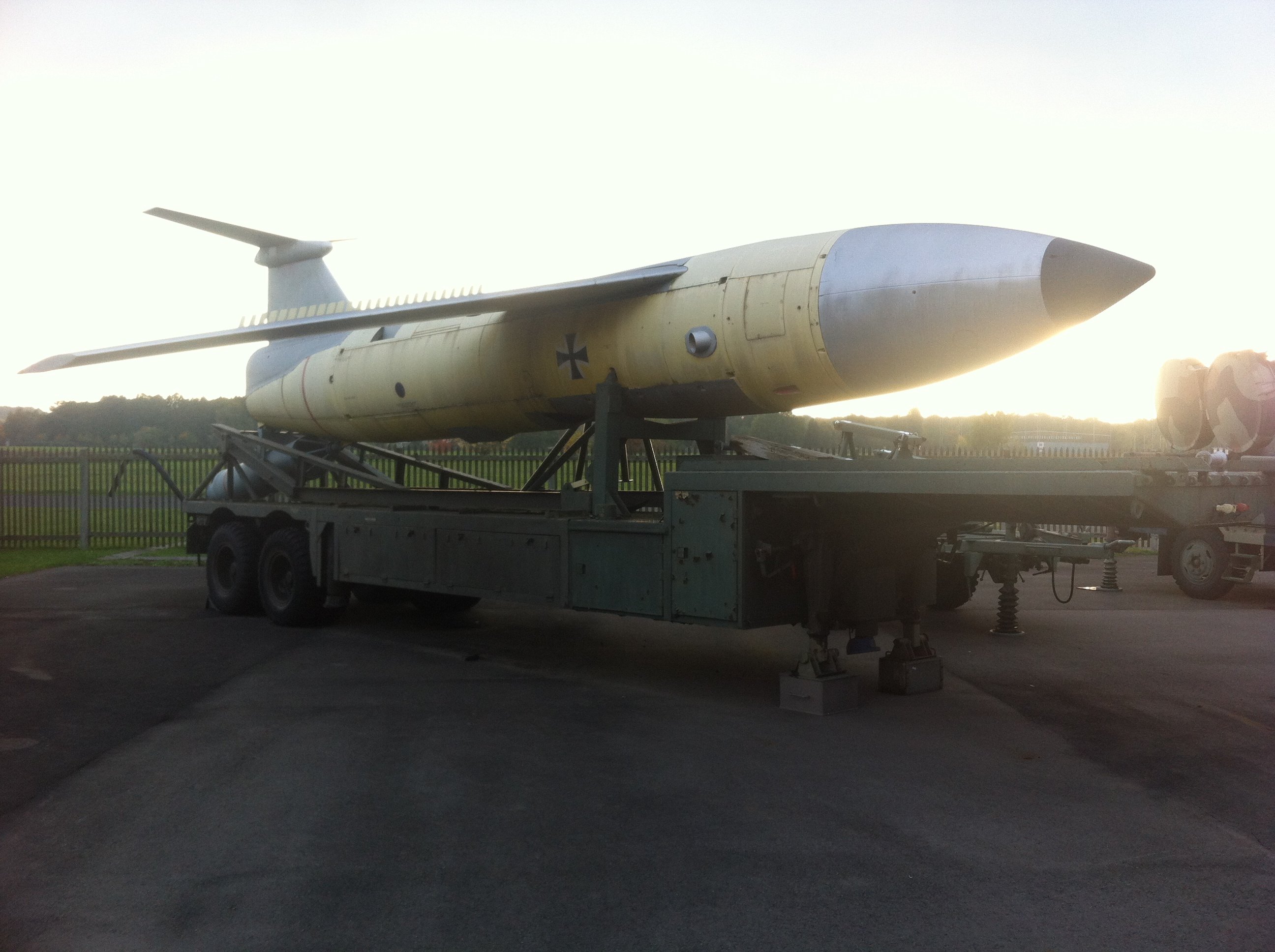 at Gatow